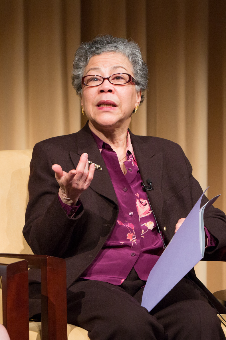 Temperance and Woman Suffrage: Reform Movements and the Women Who Changed America; Rosalyn Terborg-Penn (right), University Professor Emerita at Morgan State University, discusses temperance and woman suffrage reform with Lori Osborne, Director of the Evanston Women's History Project